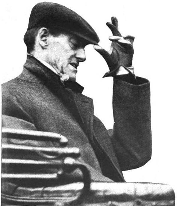 Rheumatic ailments depriving him the use of his legs, John T. Brush in 1911 sits in an "invalid's chair" in a hotel room at New York's Imperial Hotel operating his million-dollar baseball property.